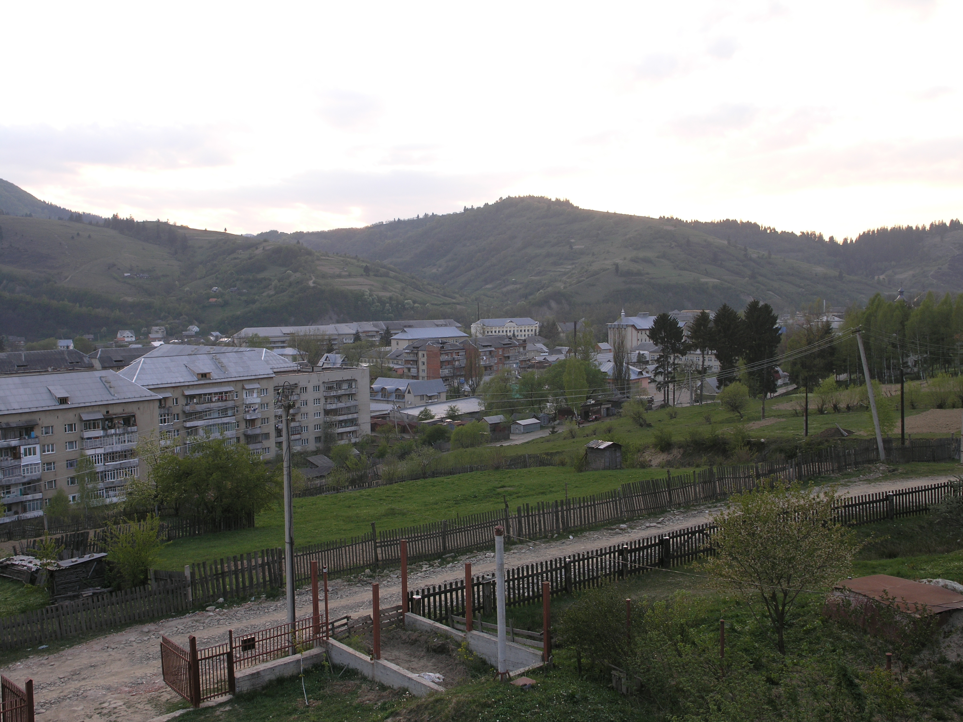 Mizhhiria, Zakarpattia Oblast, Ukraine